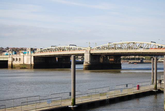 Rochester Bridge, near to Rochester, Medway, Great Britain. The lowest bridging point of the River Medway.